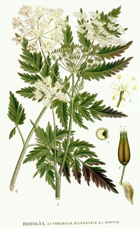 Original Description Hundkäx, Anthriscus sylvestris (L.) Hoffm.